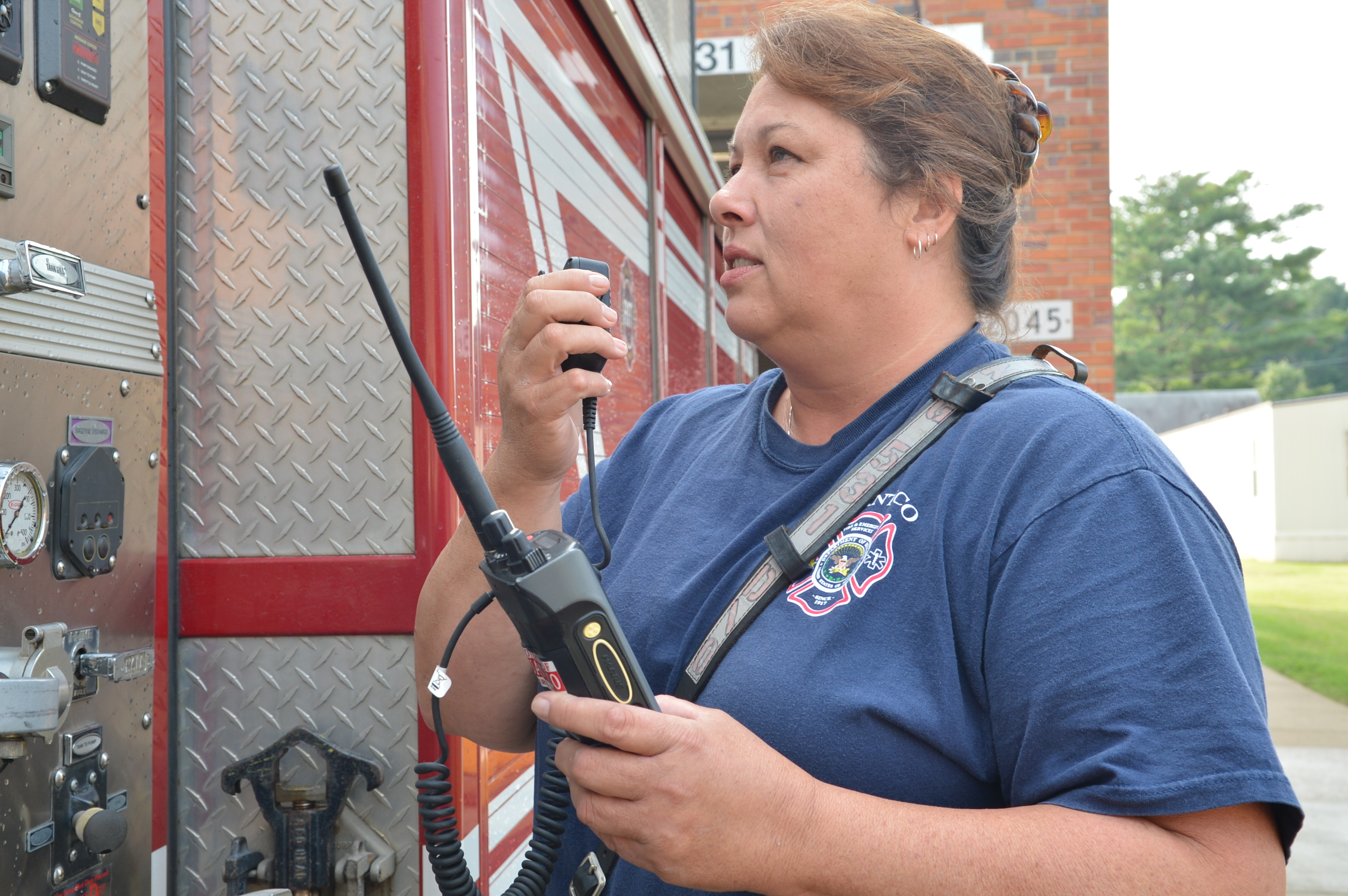 Tina Bryant, a firefighter with the Marine Corps Base Quantico, Va., Fire Department, demonstrates how her unit uses the enterprise-land mobile radio Aug. 27. Quantico completed its upgrade to the first-responder radio system, part of a Marine Corps-wide E-LMR project, in February 2013. (U.S. Marine Corps photo by Cpl. Antwaun Jefferson) Unit: Marine Corps Systems Command DVIDS Tags: Communications; Department of Defense; Command; Fort Hood; Okinawa; Control; first responders; Pacific; 911; Sept. 11; terrorist attacks; interoperability; Fire Department; acquisition; Provost Marshall Office; California; Bridgeport; Quantico; Marine Corps Base; Marine Corps Systems Command; Lester; Marine Air-Ground Task Force; Department of the Navy; MC3; Mountain Warfare Training Center; SYSCOM; U.S. Forest Service; MCSC; Tengan; MARCORSYSCOM; Force Protection Systems; enterprise-land mobile radio; E-LMR; wireless radio; Fort Buckner; Ieshima; Project 25; digital radio; continental United States